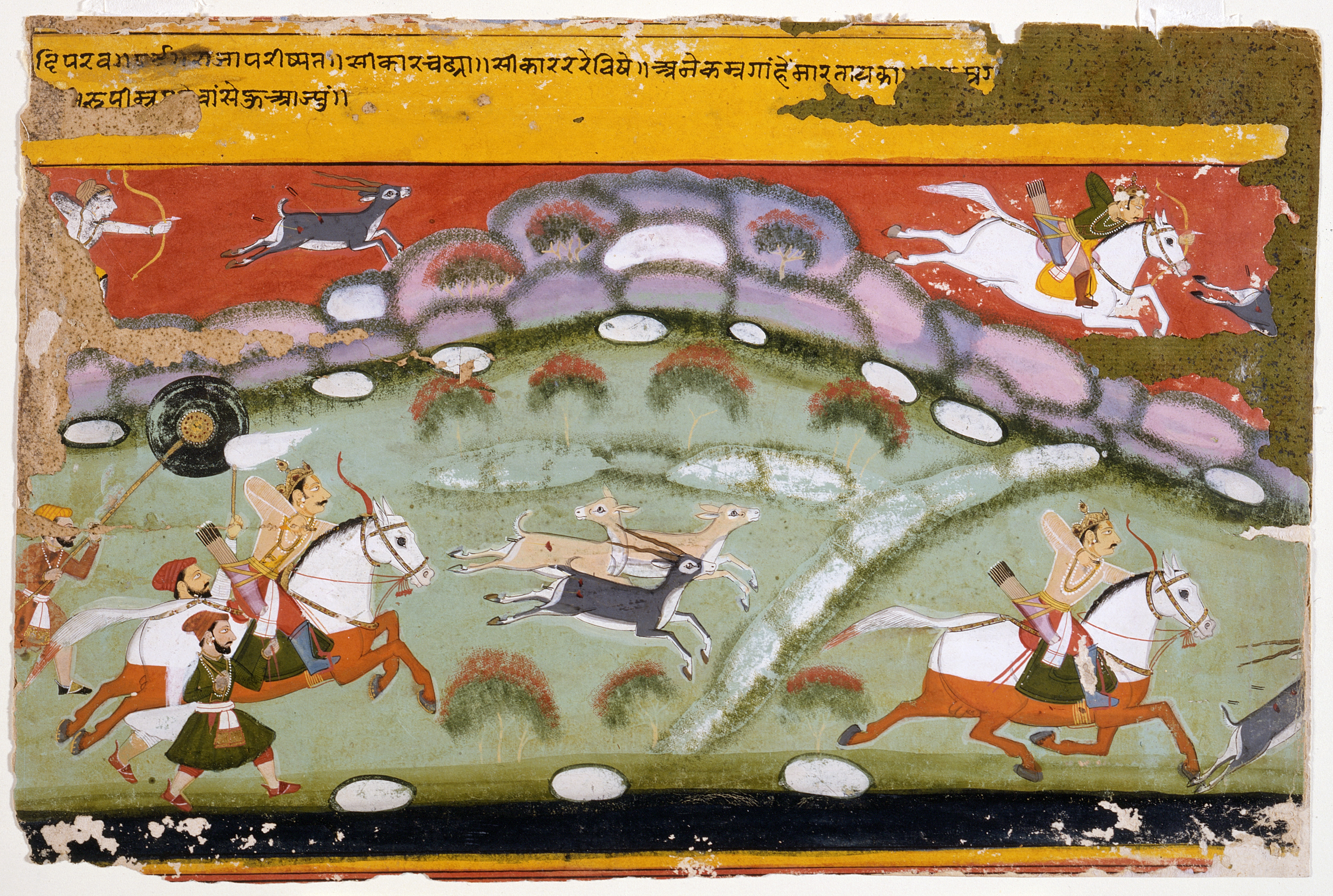 King Parikshit Hunting, Folio from a Ramayana (Adventures of Rama)